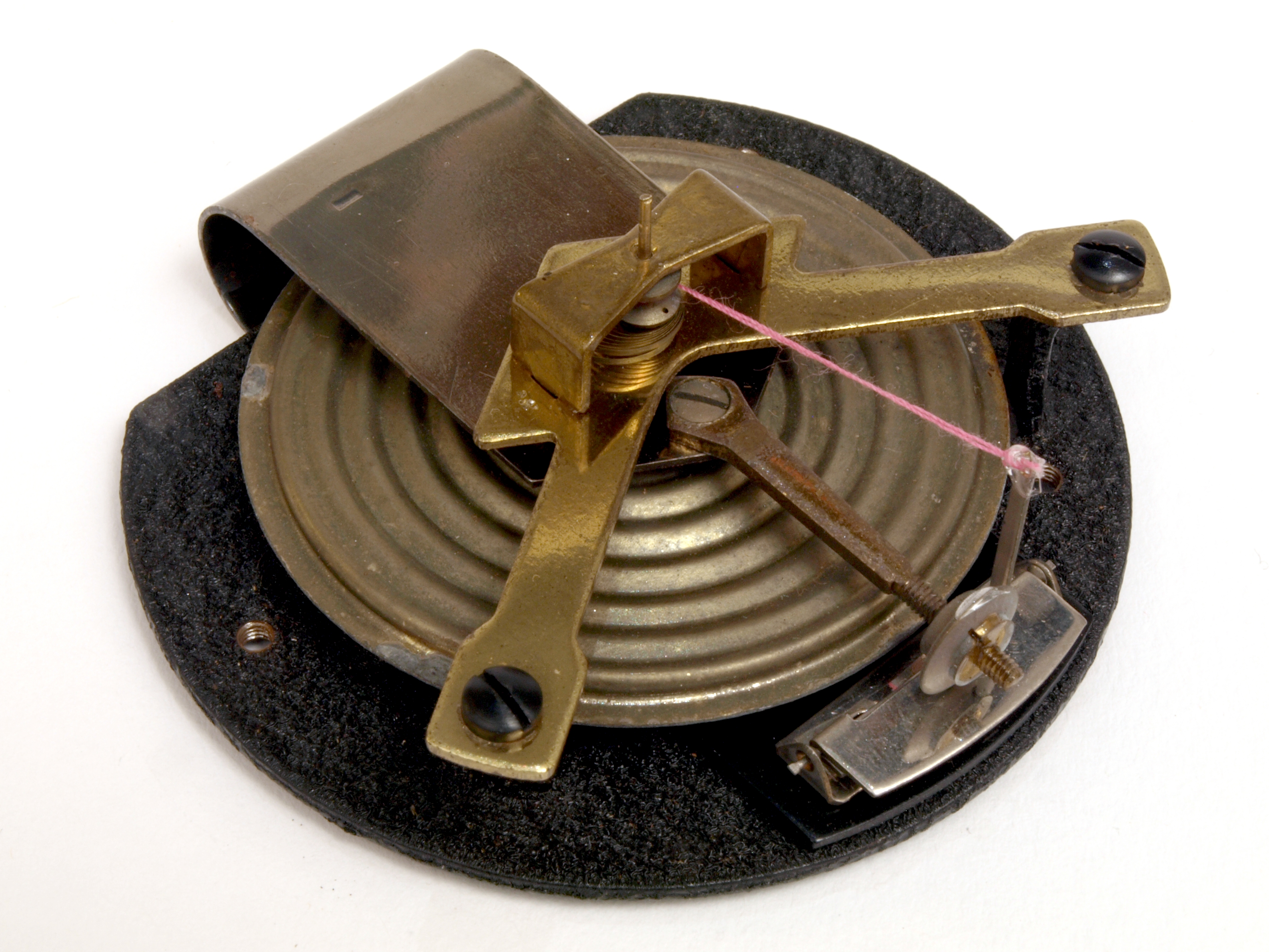 Mechanical design of an aneroid barometer by Feingerätebau Fischer/GDR